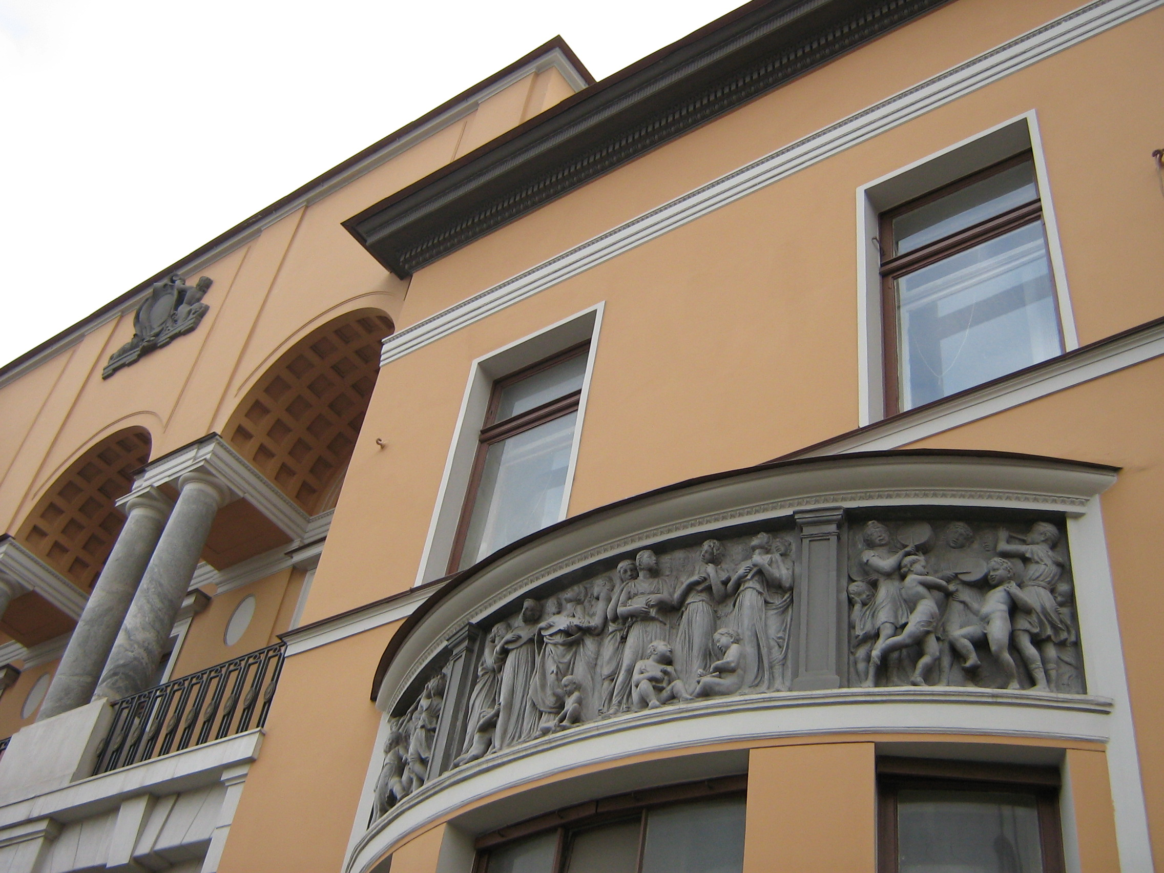 Pokotilova house (Kamennoostrovsky av., 48) in Saint-Petersburg, Russia. Detail. Особняк Покотиловой на Каменноостровском проспекте в Санкт-Петербурге (арх. М.С. Лялевич, 1909). Деталь.